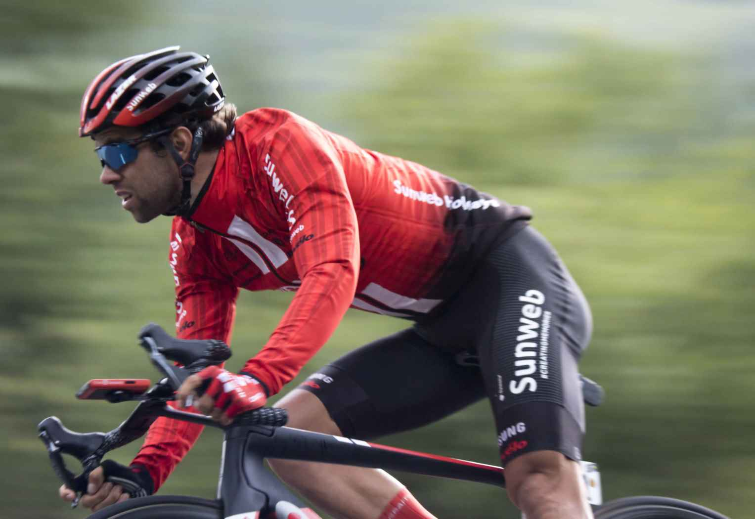 ALP10161 matthews